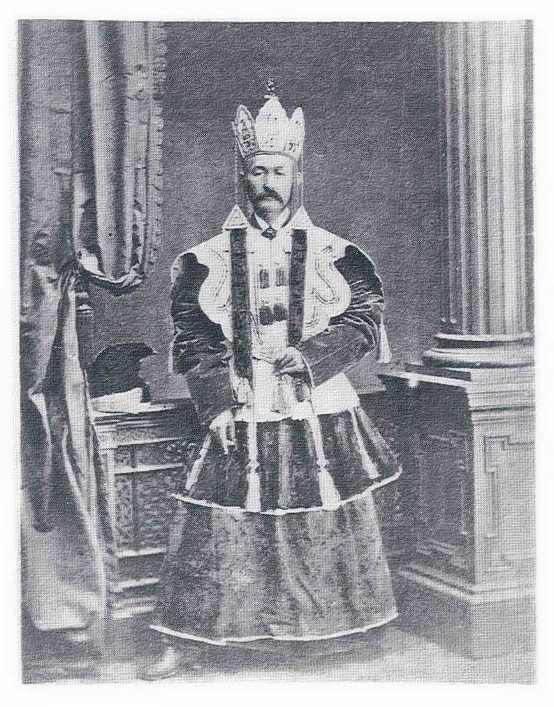 Arkad Chubanov, Lama of the Don Kalmyks (1872-1894)